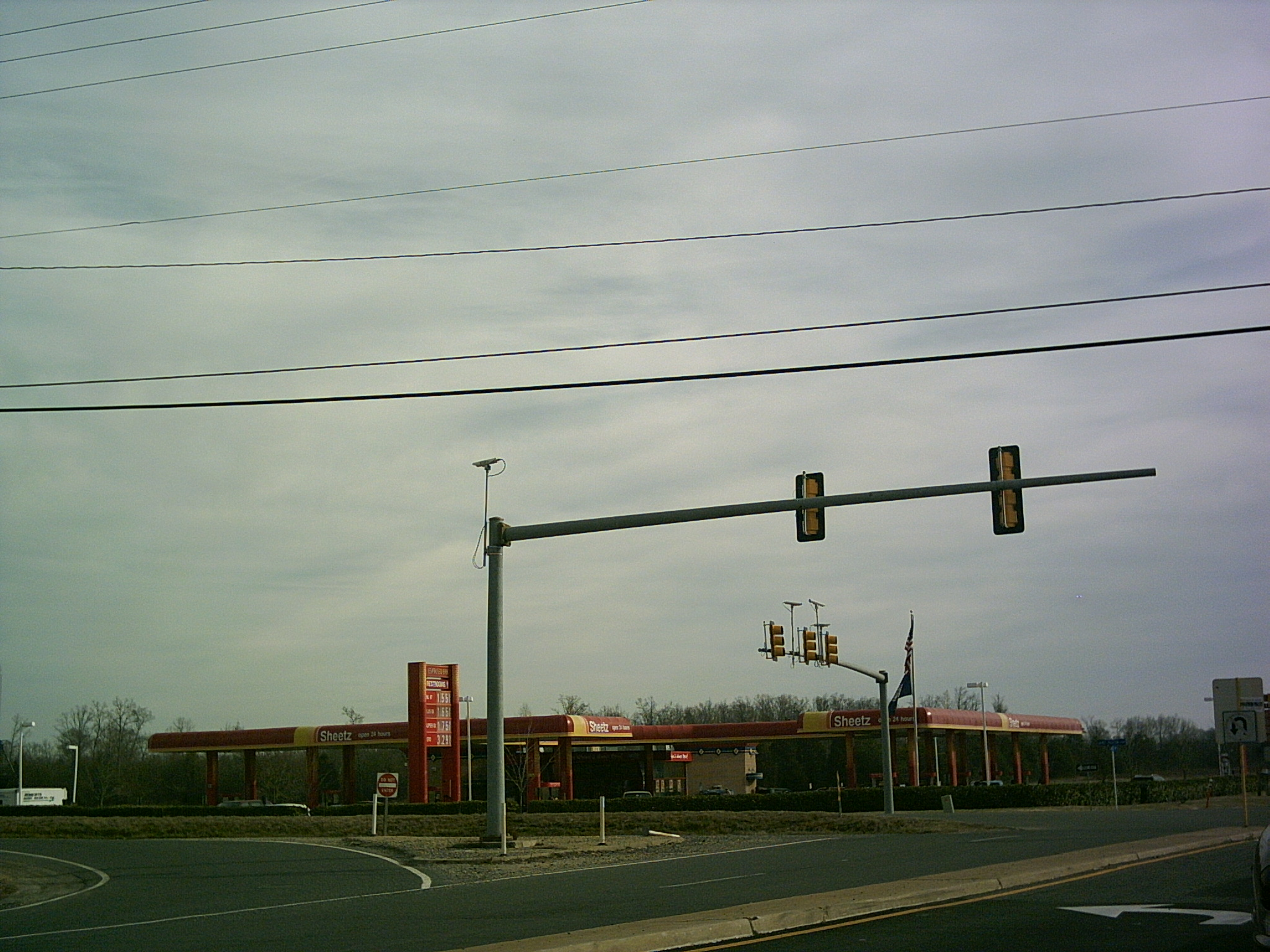 Image taken by me for Wikipedia